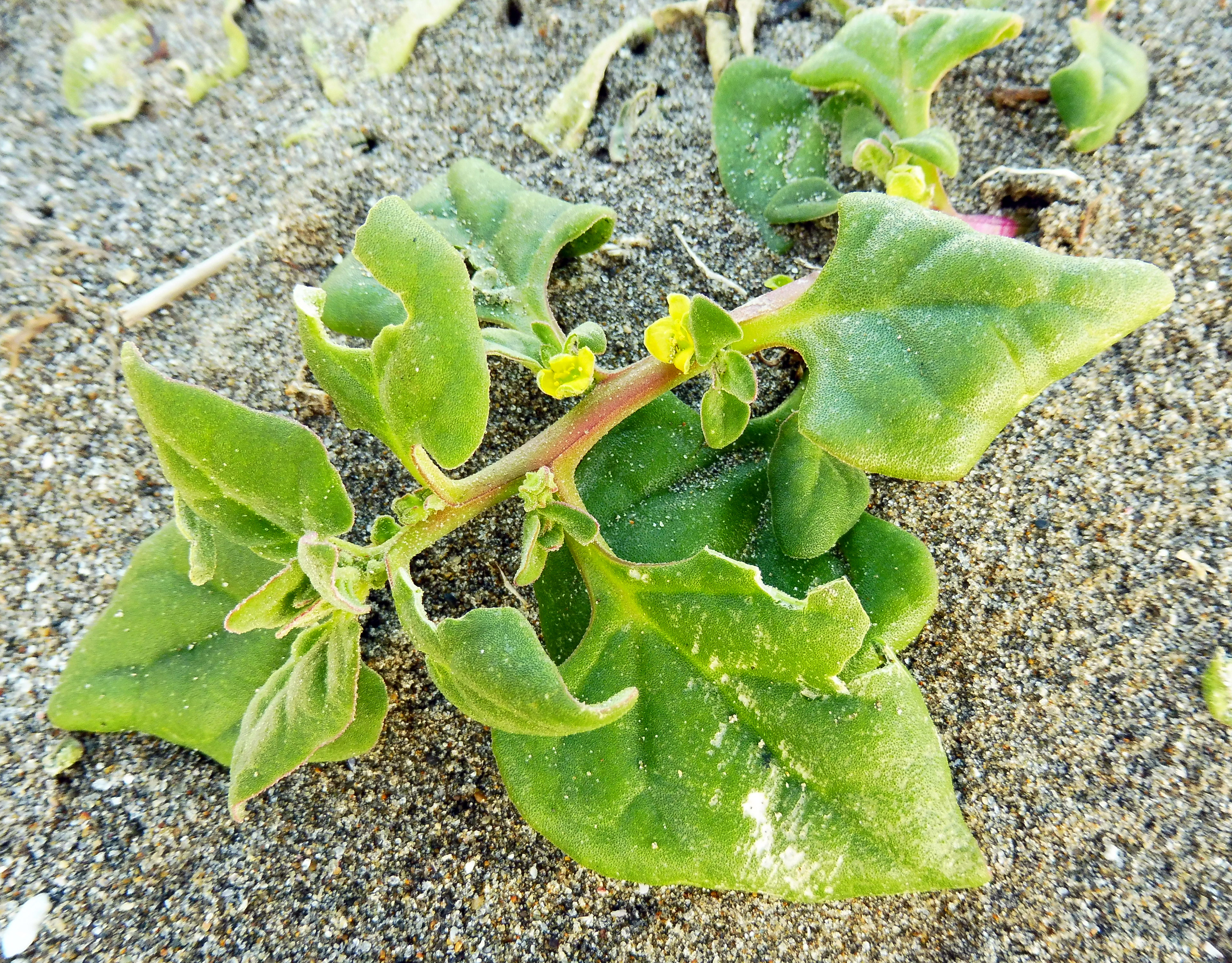 Tetragonia tetragonioides, growing in weedy back area along heavily-disturbed beach, to the east of Miurakaigan Station. City of Miura, Kanagawa Prefecture, Japan.